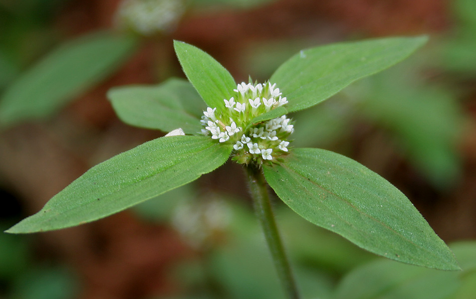 Spermacoce ocymoides (syn. Bigelovia laevicaulis, Borreria laevicaulis, B. ocymoides, B. ramisparsa, S. prostrata)- purple-leaved button weed- at Ananthagiri Hills, in Rangareddy district of Andhra Pradesh, India.